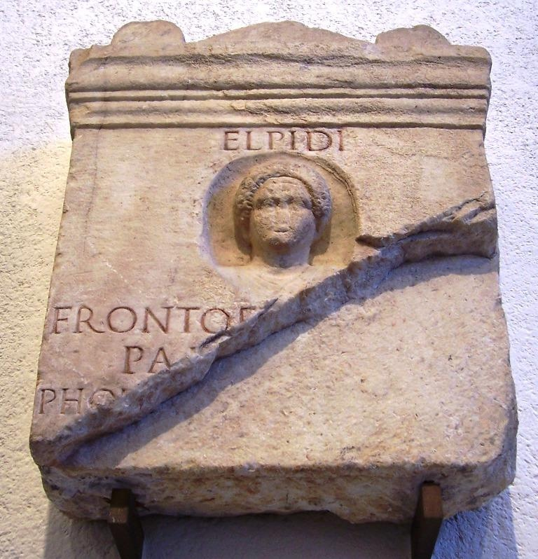 Funerary stele found at the monastery of San Pietro dei Frati Minori Cividate, now in the Archaeological Museum in Bergamo (inv. 967). Origin: Cividate Camuno, Val Camonica